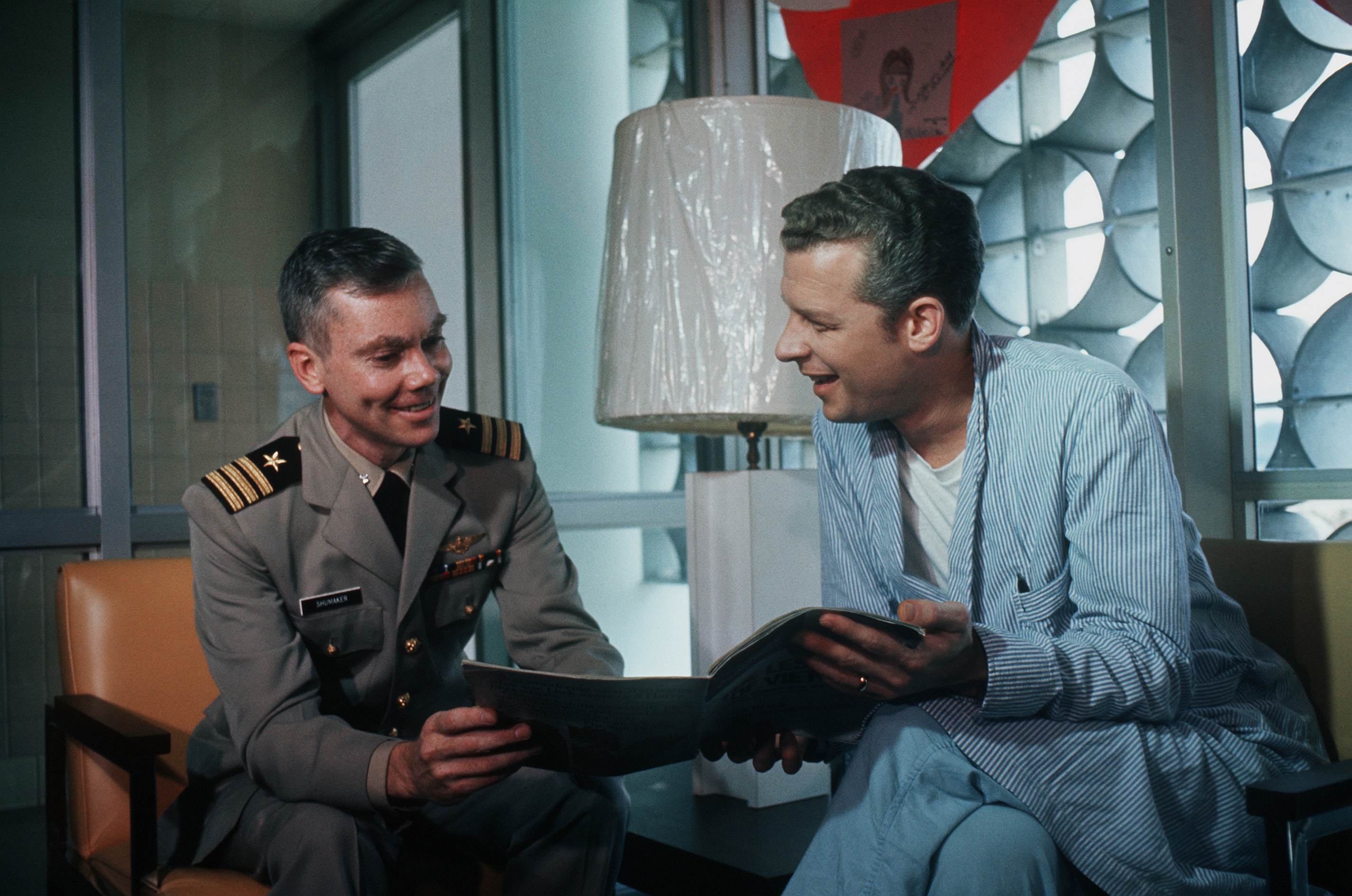 Former POW and U.S. Navy CMDR Robert Harper Shumaker (Captured 11 Feb 65) shares a magazine with fellow ex-POW U.S. Navy LCMDR Phillip Neal Butler (Captured 20 Apr 65) in the hospital reading lounge. CMDR Shumaker and LCMDR Butler were released by the North Vietnamese in Hanoi on 12 Feb 73.